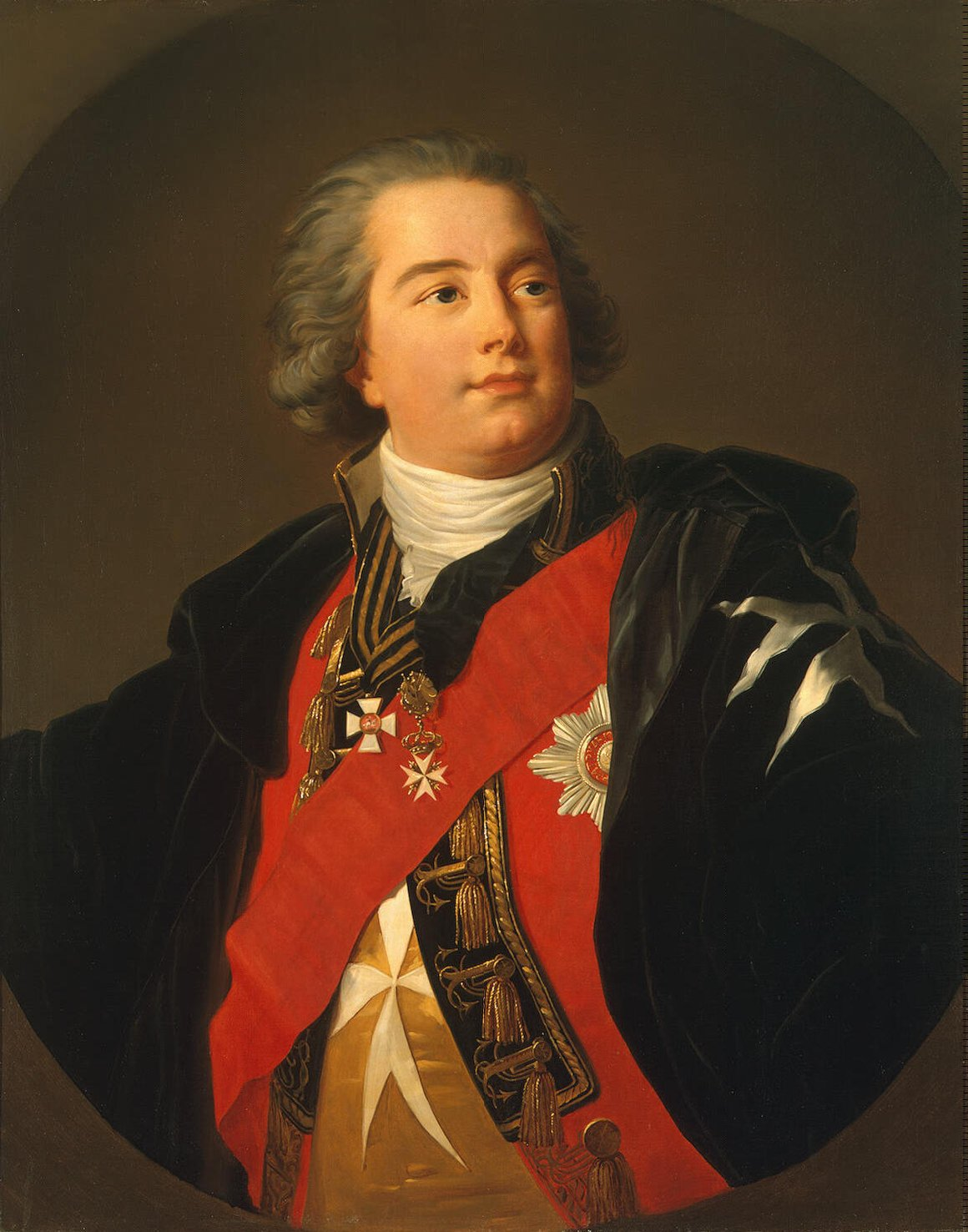 Portrait of Count Yuly Litta (1763-1839), received from State Museum of Ethnography of the Peoples of the USSR, Leningrad, 1946